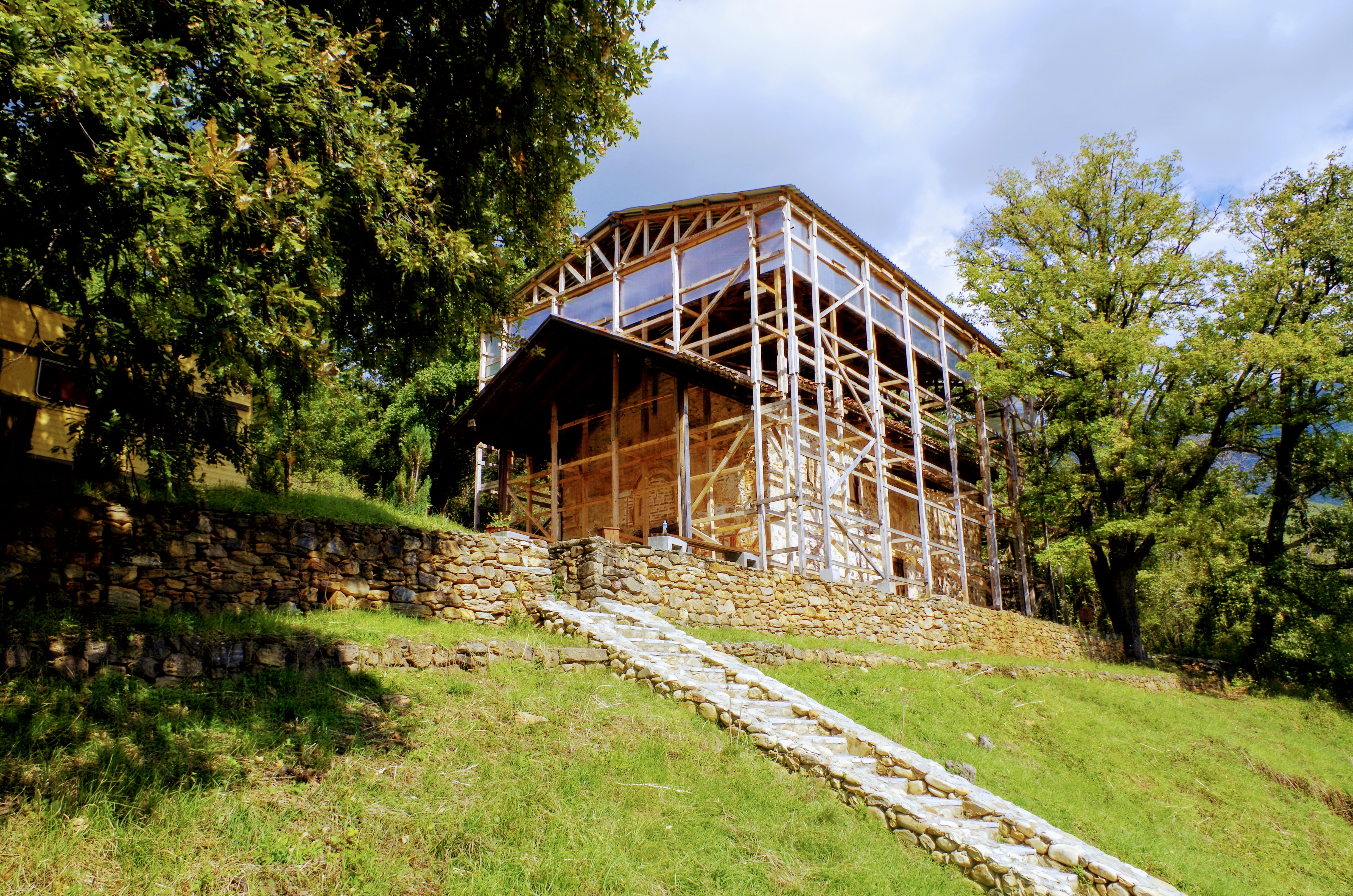 View of the St. George's Church in the village Kurbinovo